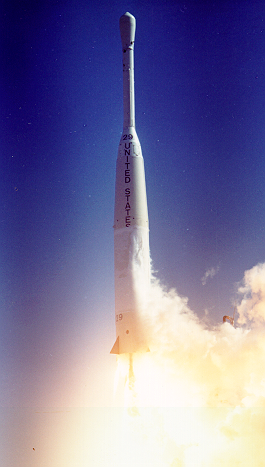 Launch of the rocket Thor Delta C with scientific satellite OSO-2.